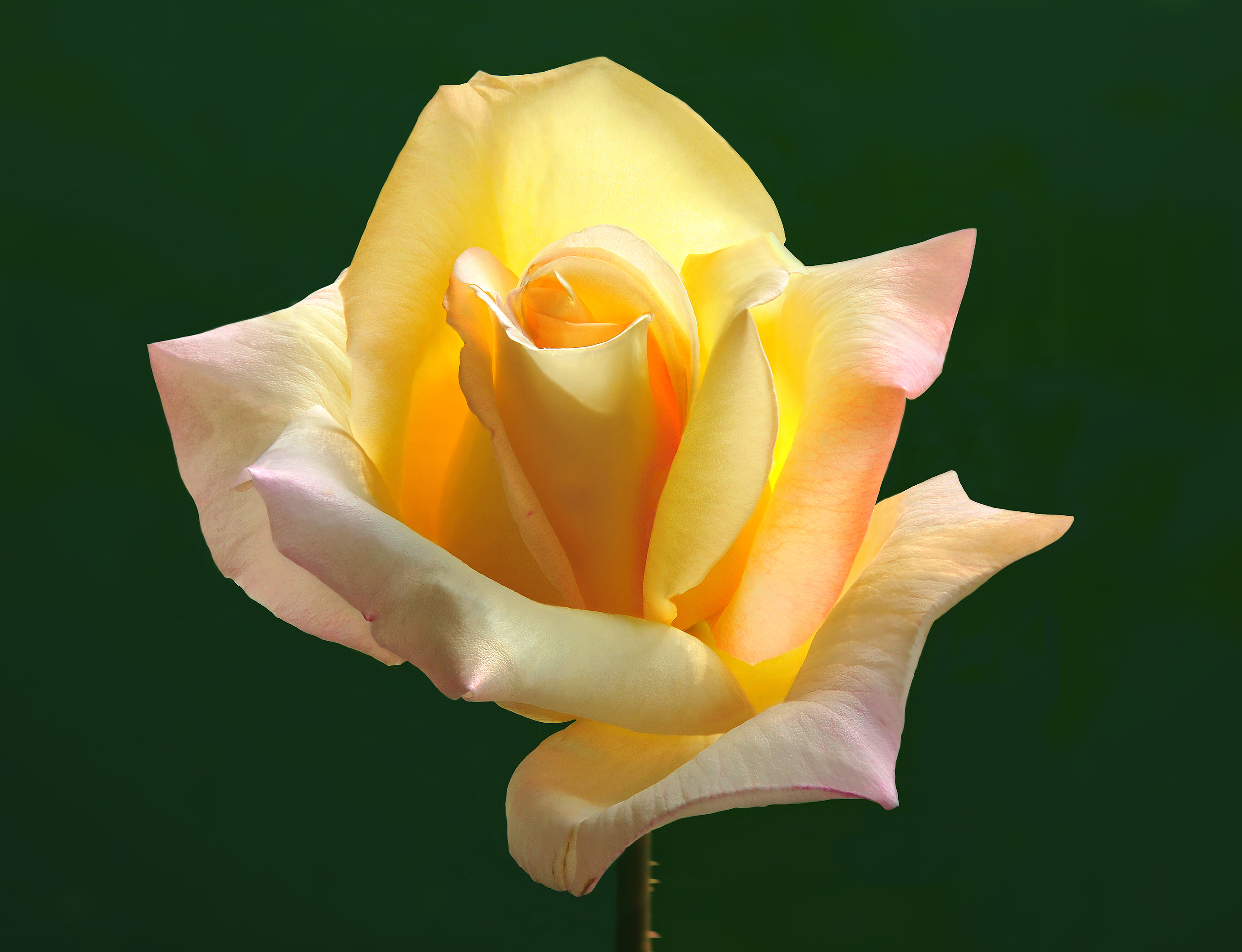 Rosa Peace.